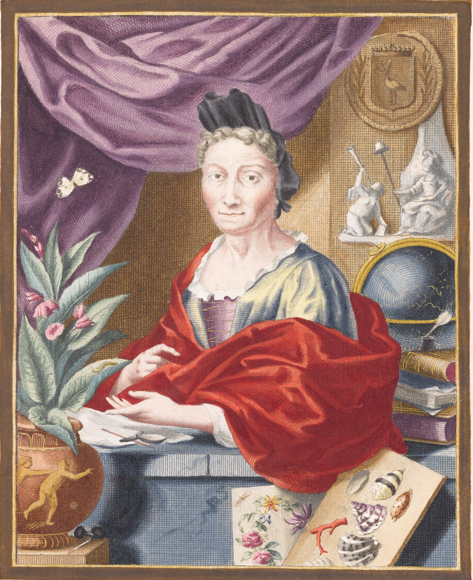 Anna Maria Sibylla Merian portrait in color